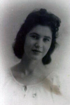 Dahlia Ravikovitch at about the age of 20.